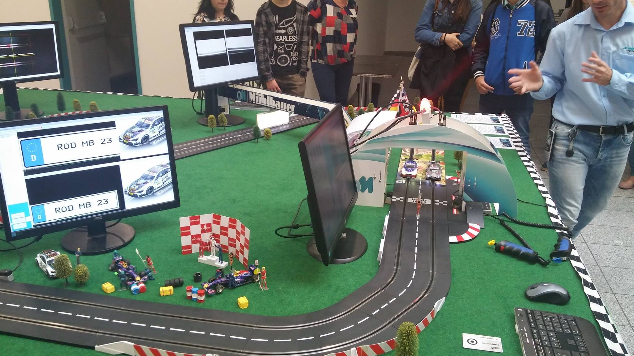 ssos polytechnicka dsa trnava